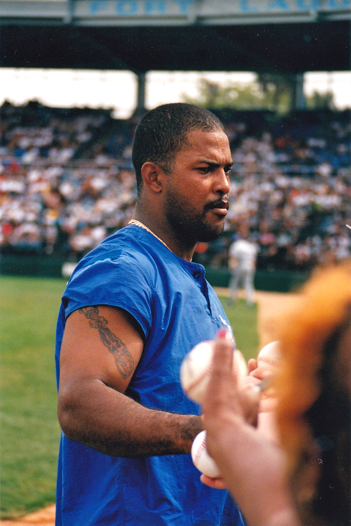 Los Angeles Dodgers outfielder Raul Mondesi signs autographs during a spring training game against the Baltimore Orioles in Fort Lauderdale, Fla., March 20, 1998.